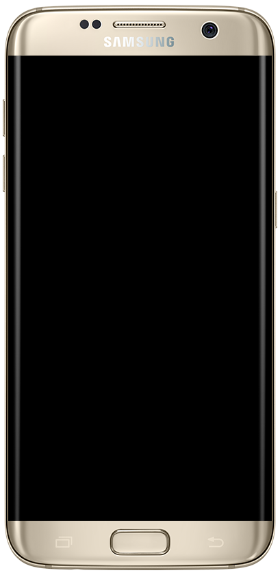 Samsung Galaxy S7 Edge